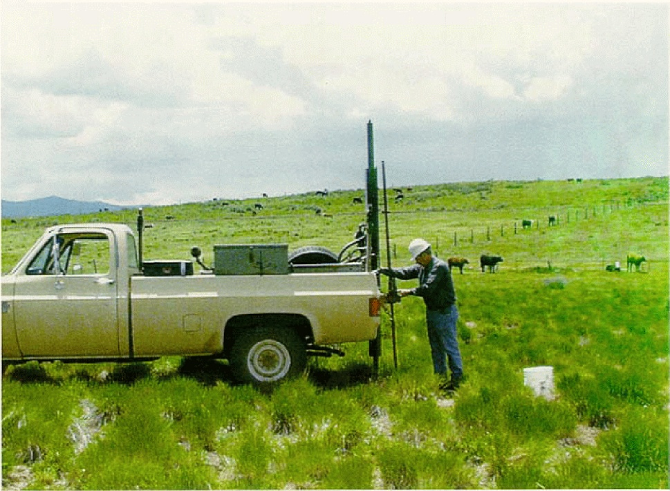 from